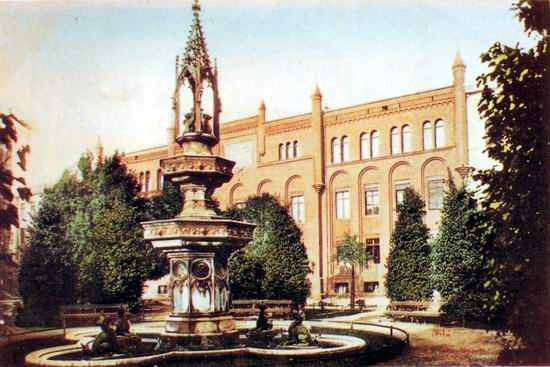 Painting of the Academic Gymnasium in Gdansk (19th century).